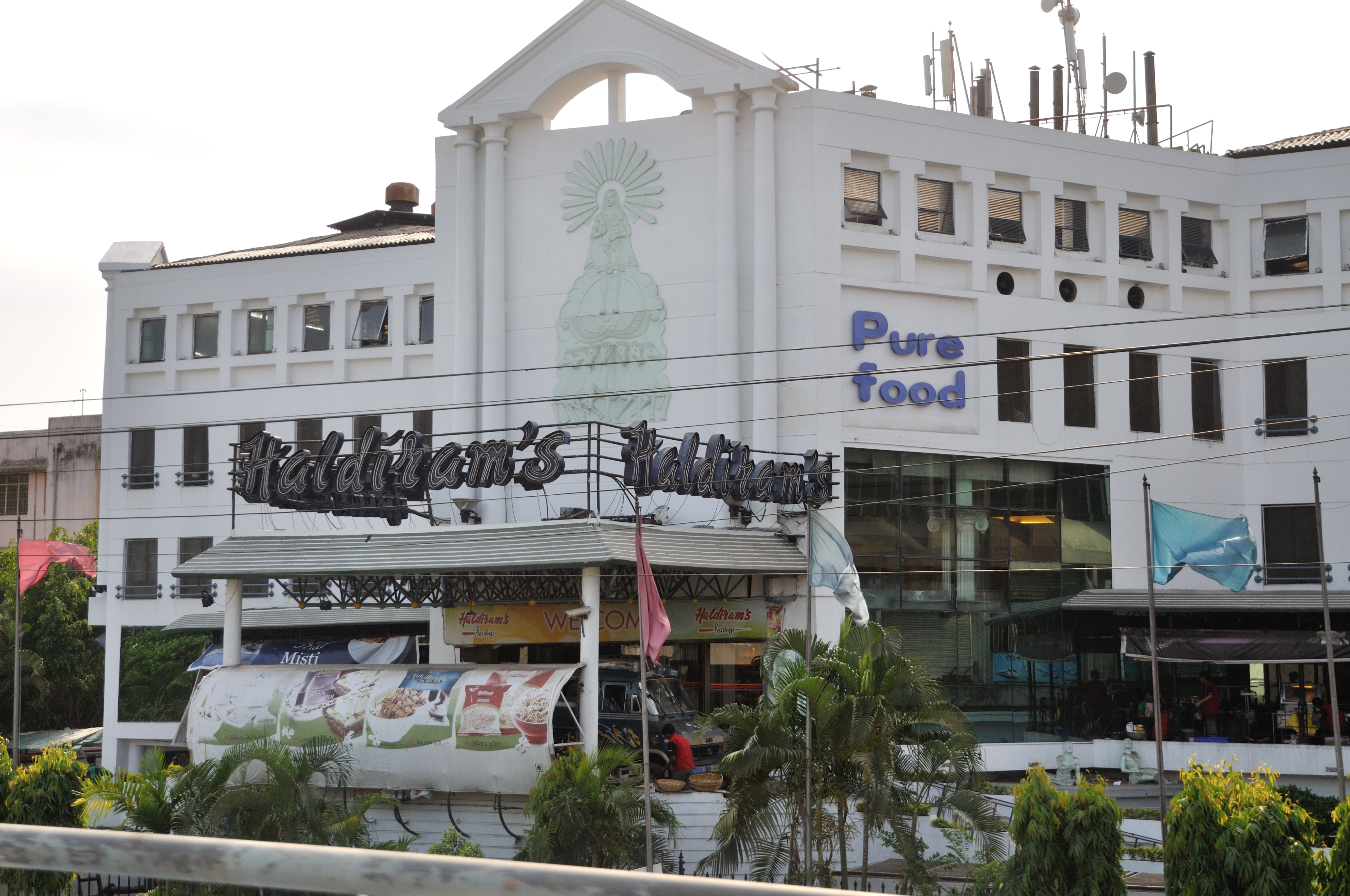 Photographed in, Kolkata.